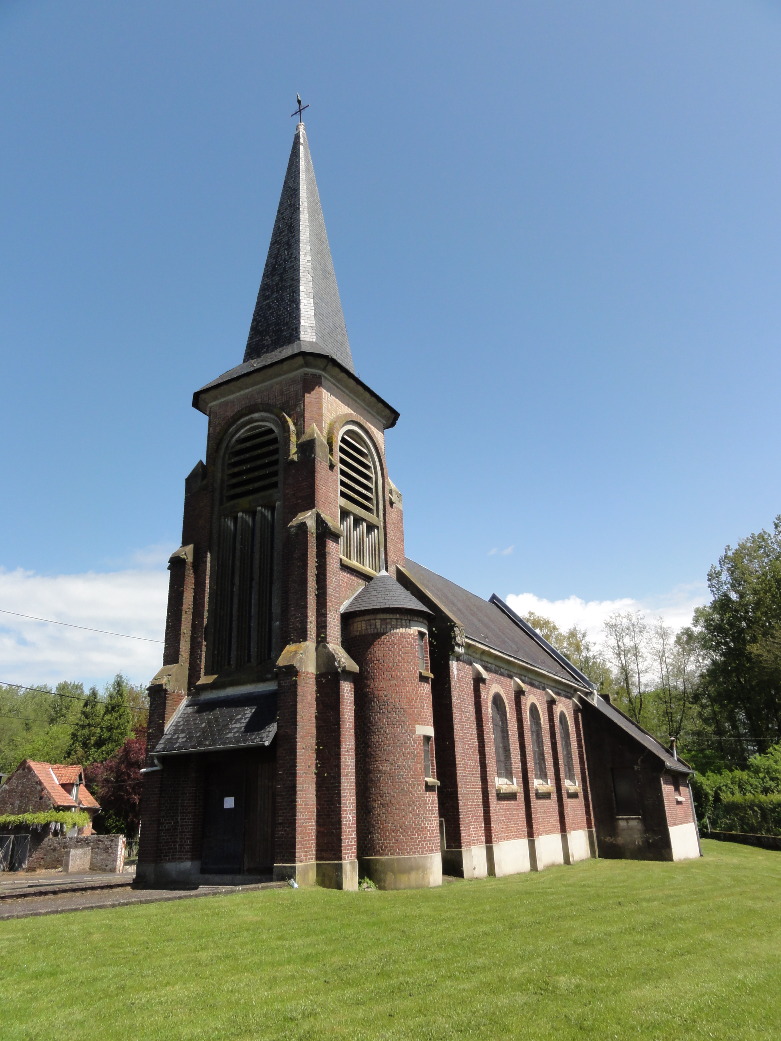 Berthenicourt (Aisne) église Saint-Basle